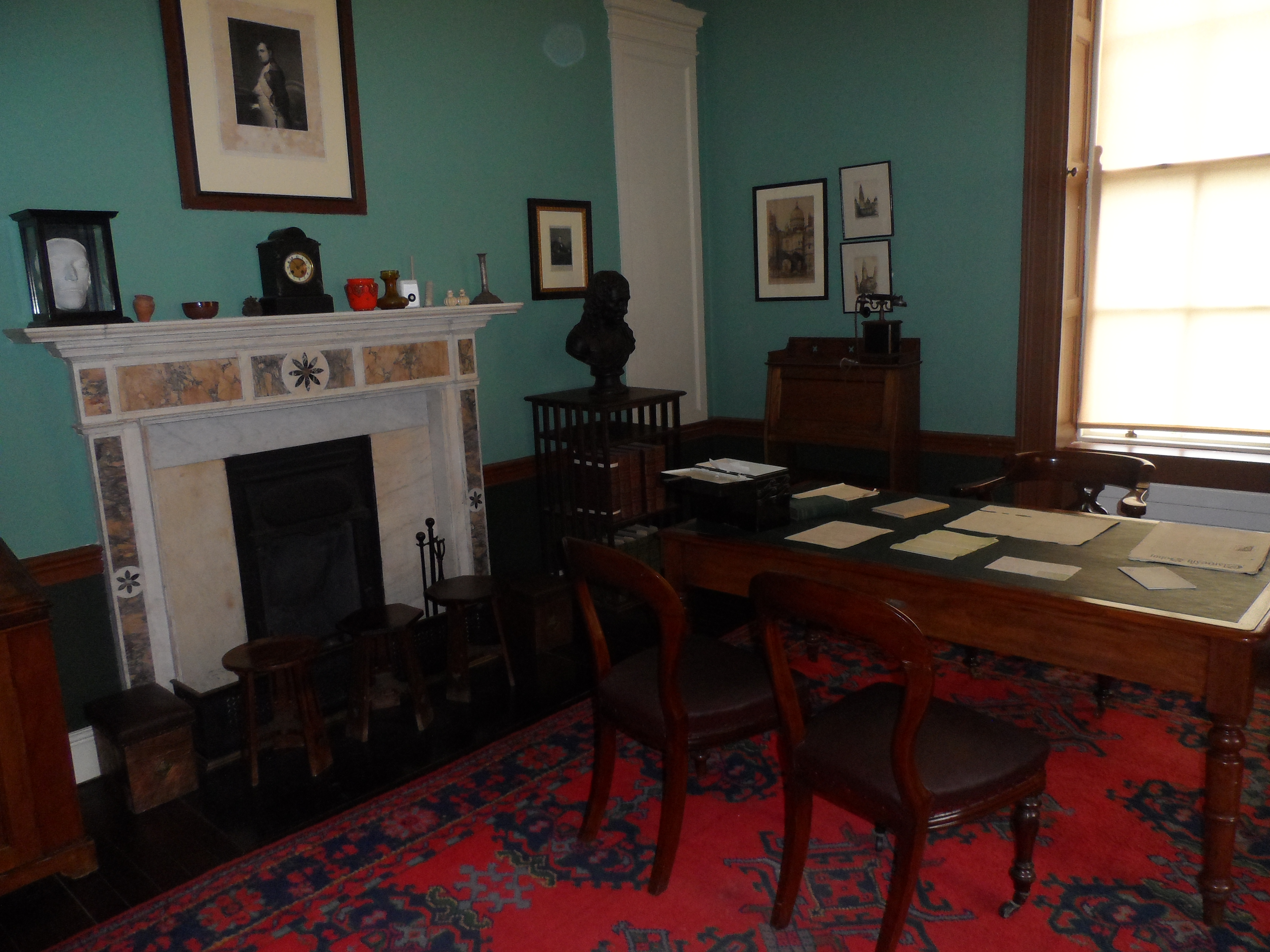 Office, Naomh Éanna, Rathfarnham